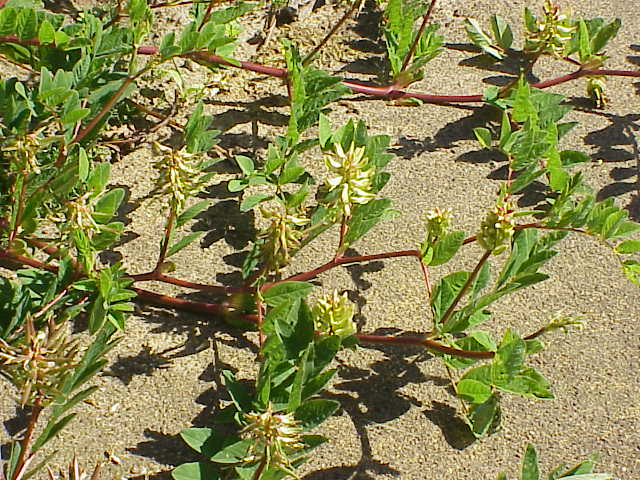 Species: Astragalus glycyphyllos Family: Fabaceae Image No. 1